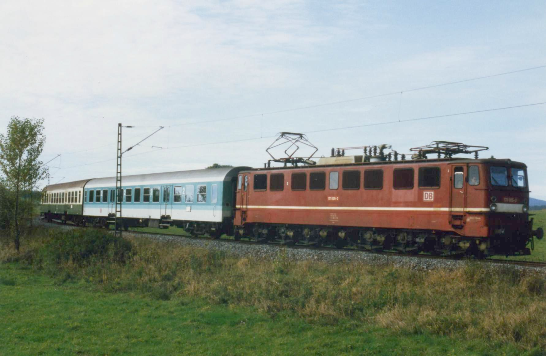 Today, 17 April 2009, the electricity was turned back on at the Ruebelandbahn, after a number of years out of use, due to environmental campaigning. A multi-million pound renovation of the electrical system was paid for by the regional government and the Goslar-based quarry which exports several million tonnes of stone products from their site on the line annually. Listen and read about it here Passenger services were cancelled permanently in 2000. At the time of the photo, this train of mixed old and new livery carriages, was returning from Koenigshuette, rather than Elbingerode, where the service was pruned back to subsequently. This line was unique on the Deutsche Reichsbahn, being supplied with 25kV AV electricity at 50Hz, rather than the 15kV at 16.66 Hz. Thus, the locomotives were restricted to the wires between Blankenburg and Koenigshuette. Gradients of upto 15 per cent were worked by adhesion. It looks like this photo was taken at about the higest point of the line.